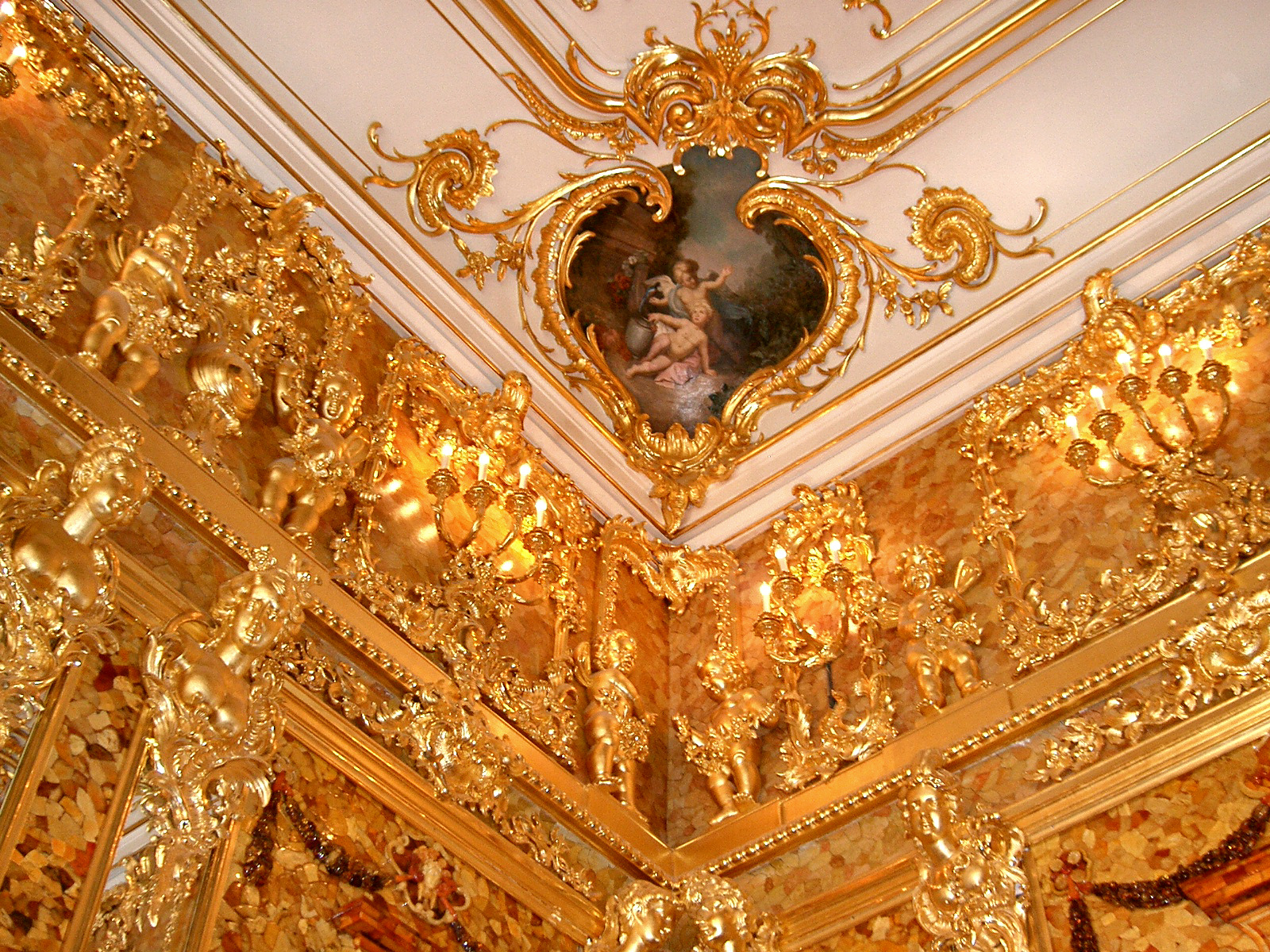 Pushkin (Russia), Amber room of the Catherine Palace